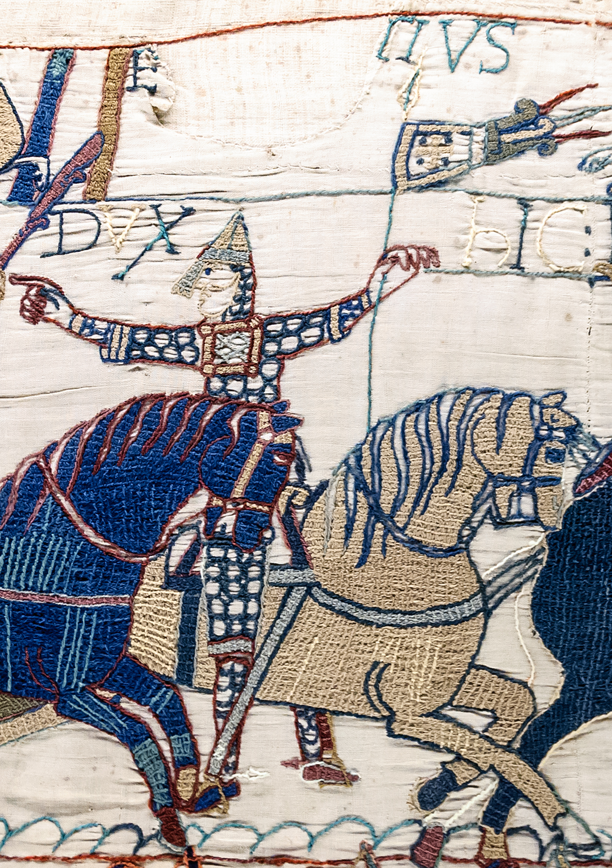 Bayeux Tapestry - Scenes 55 & 56 (detail) - Eustace II, Count of Boulogne at Battle of Hastings. Titulus: E[USTA]TIUS